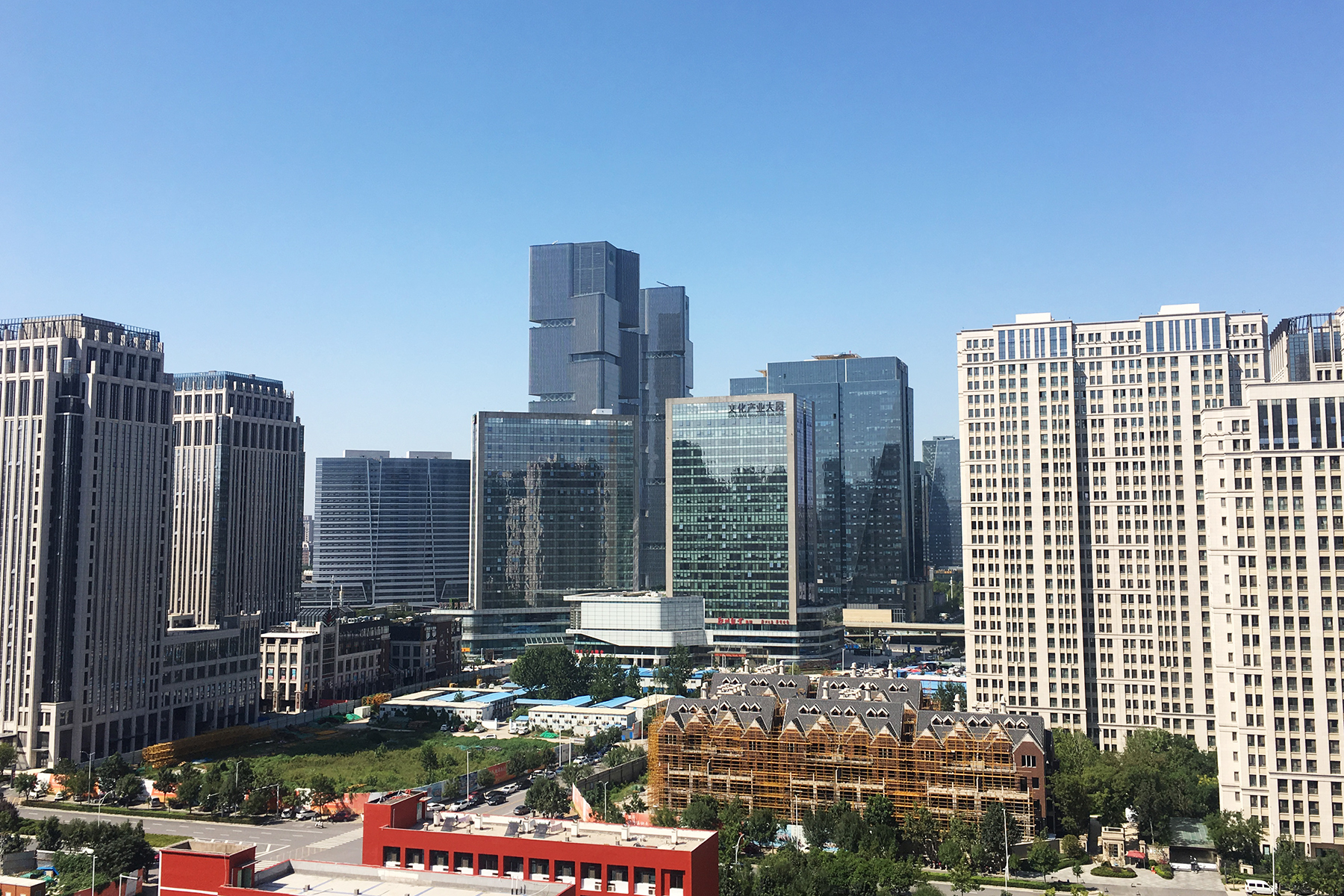 Commercial area in Zhengdong New Area